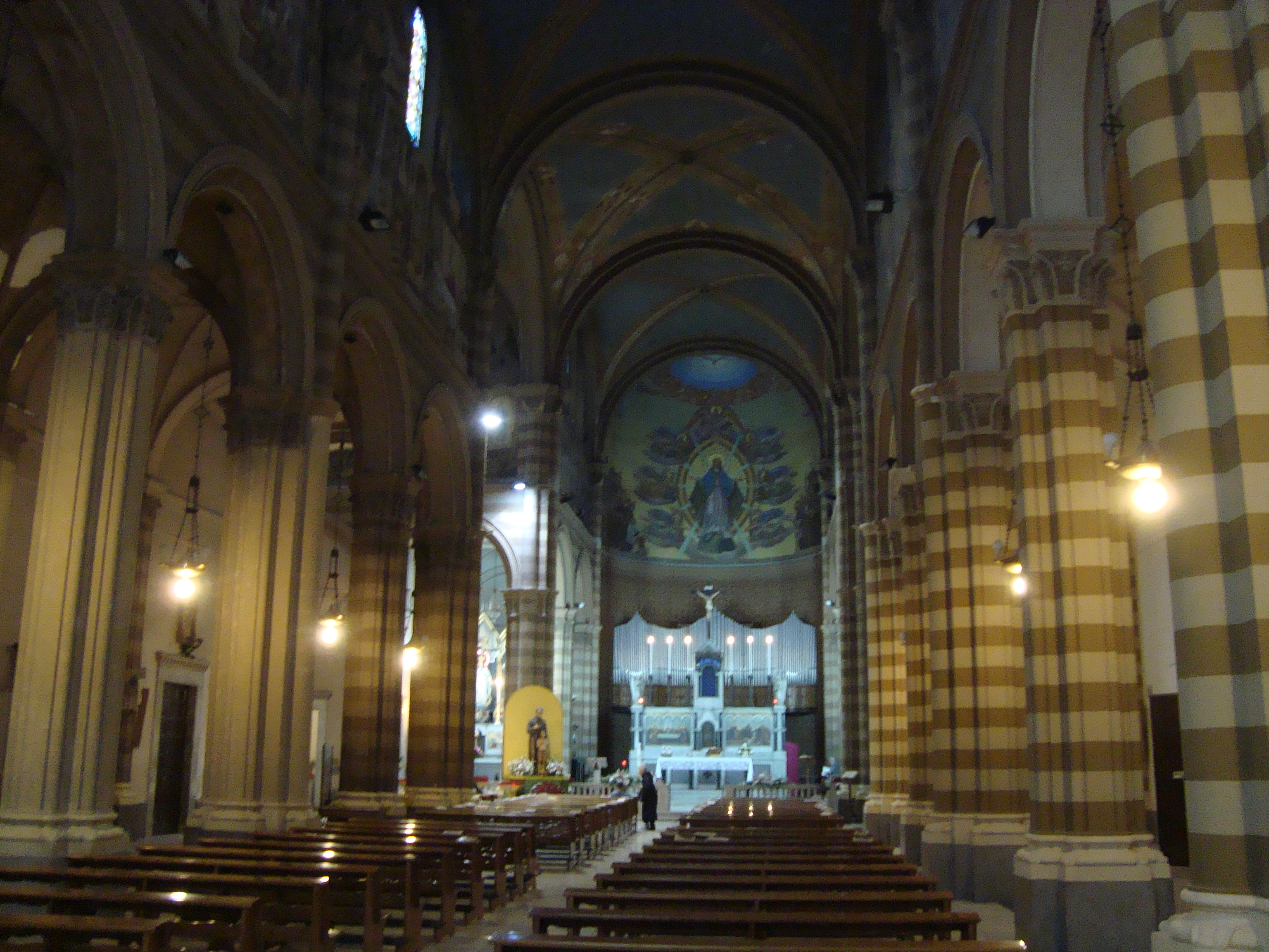 The interior of Santa Maria Immacolata e San Giovanni Berchmans church in Tiburtino, Rome